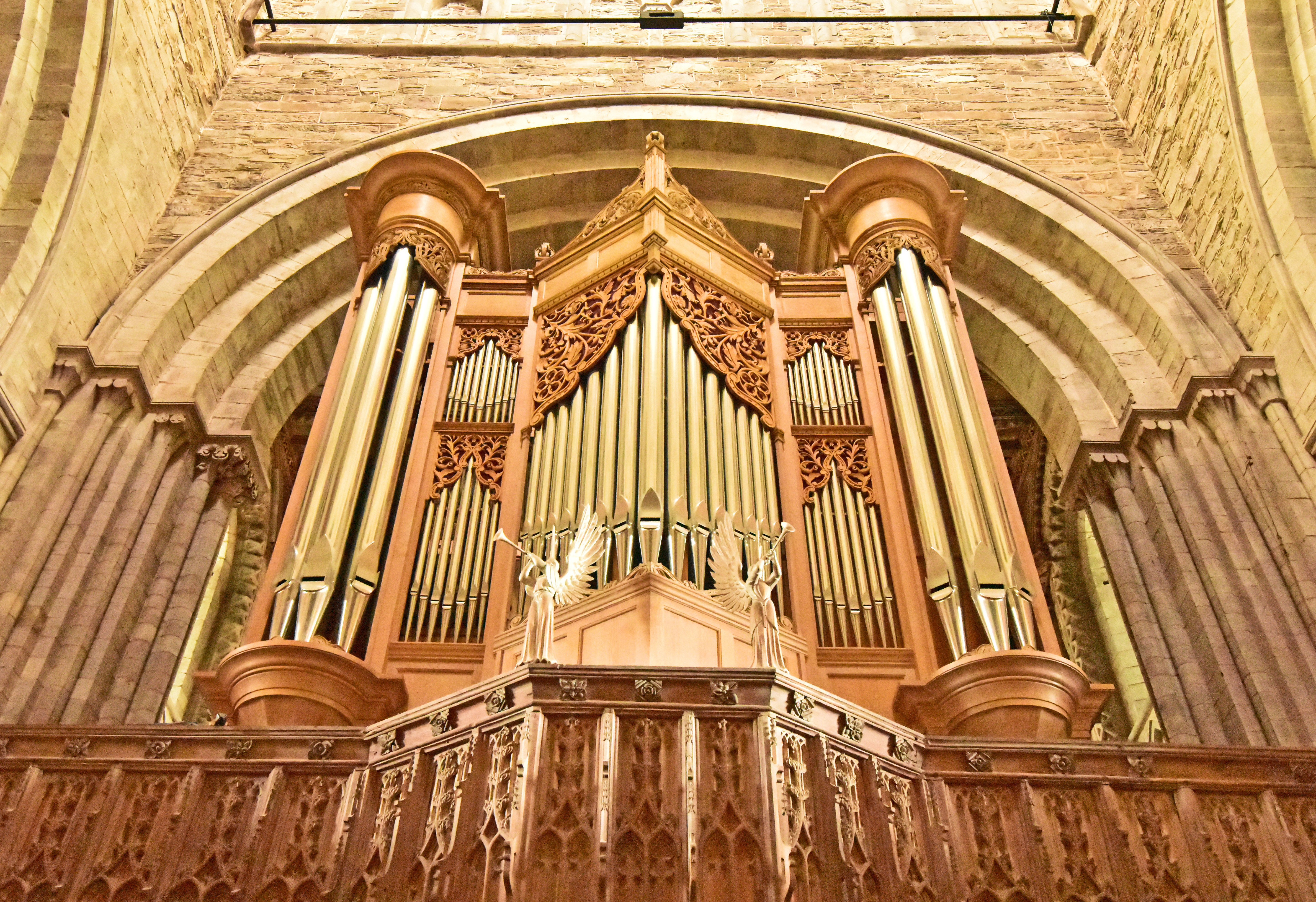 St David's Cathedral Wikidata has entry Q1300003 with data related to this item.